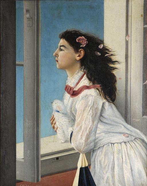 Girl at the window, National Gallery and Alexander Soutsos Museum , Athens Greece.